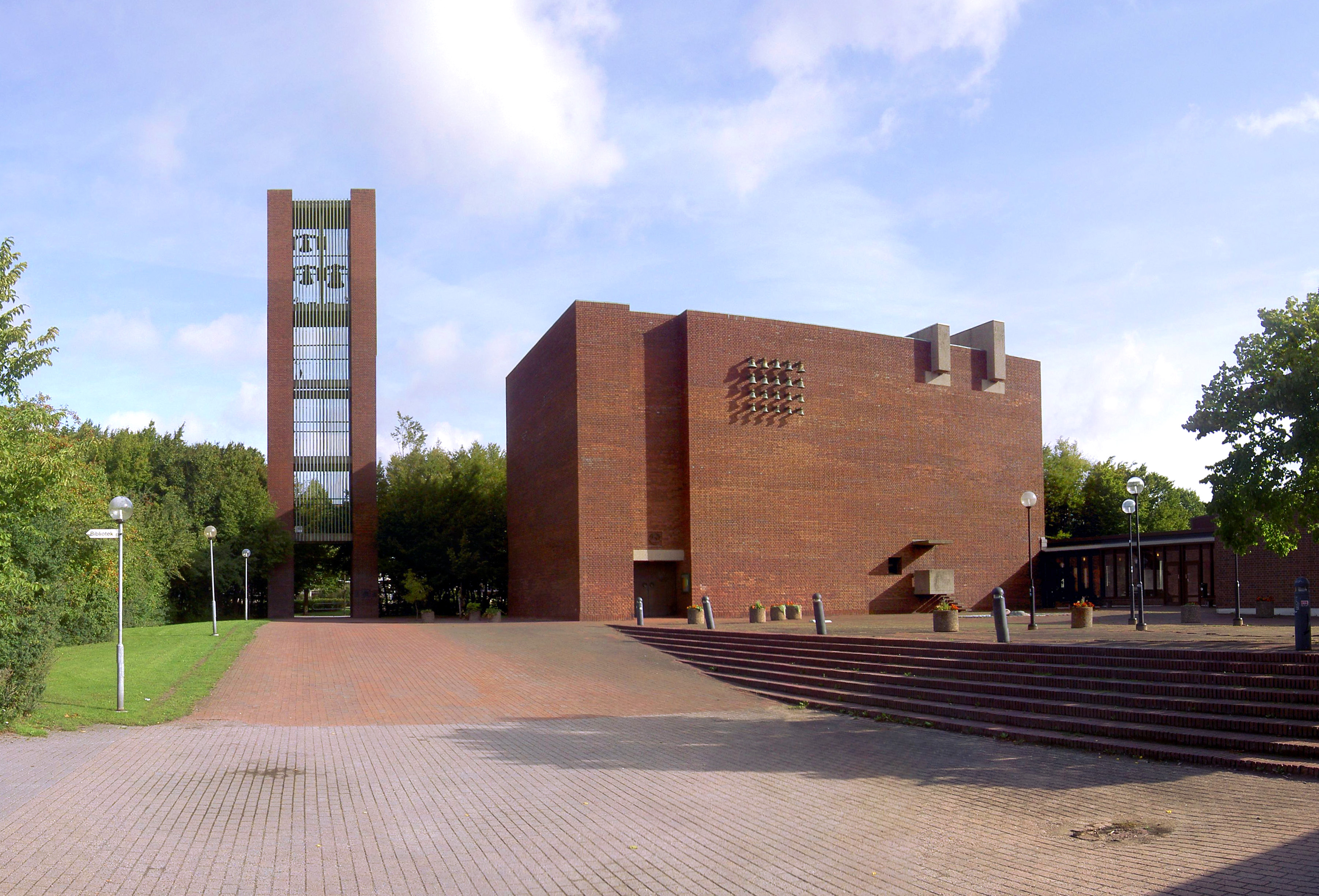 Helgeandskyrkan, Lund. Pictures were taken with a handheld compact camera and stitched in Autopano Pro. I've noticed a couple of stitching errors.